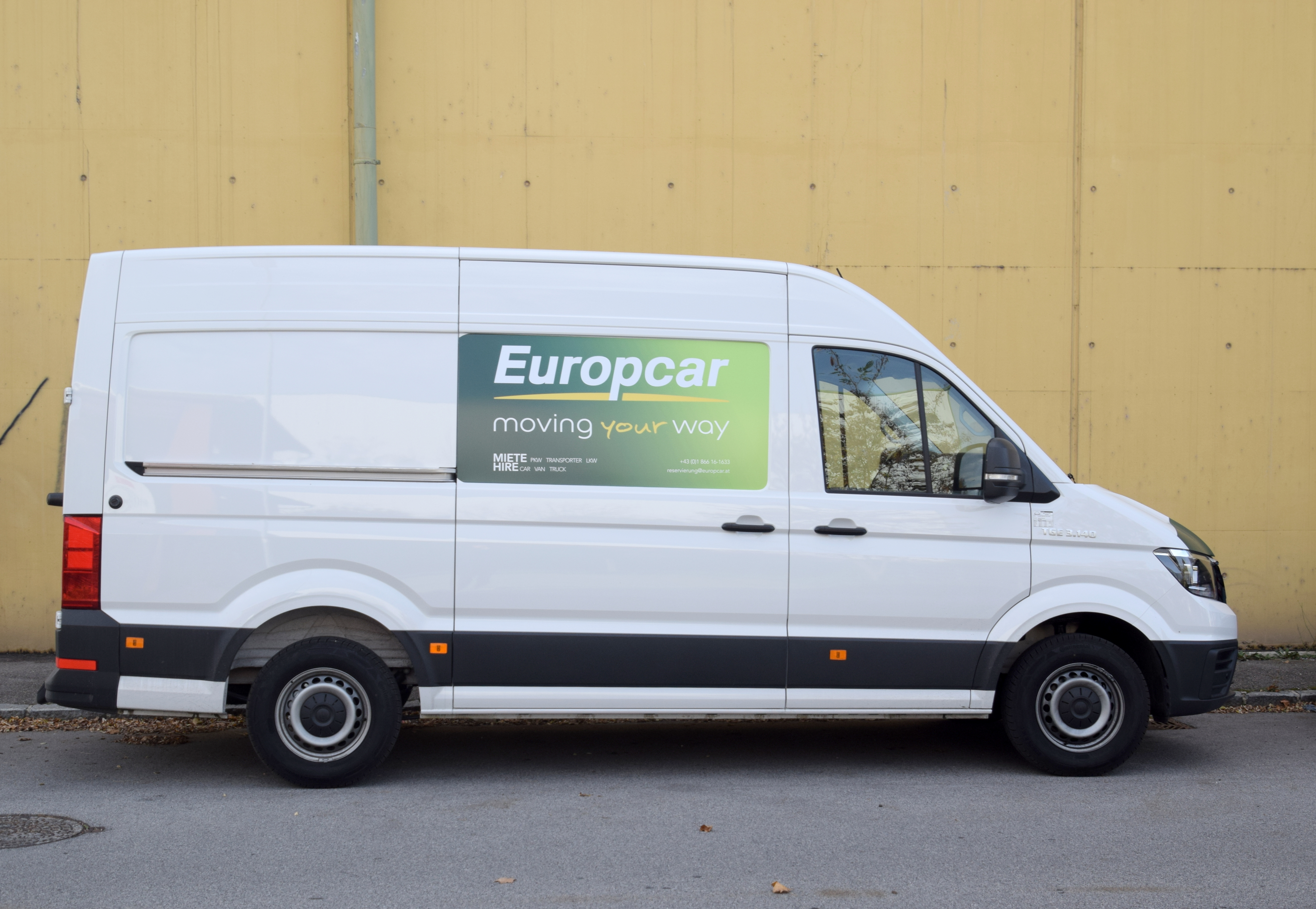 Europcar rental MAN TGE 3.140 in white (configuration: standard wheel base, standard length, high roof), view from the side